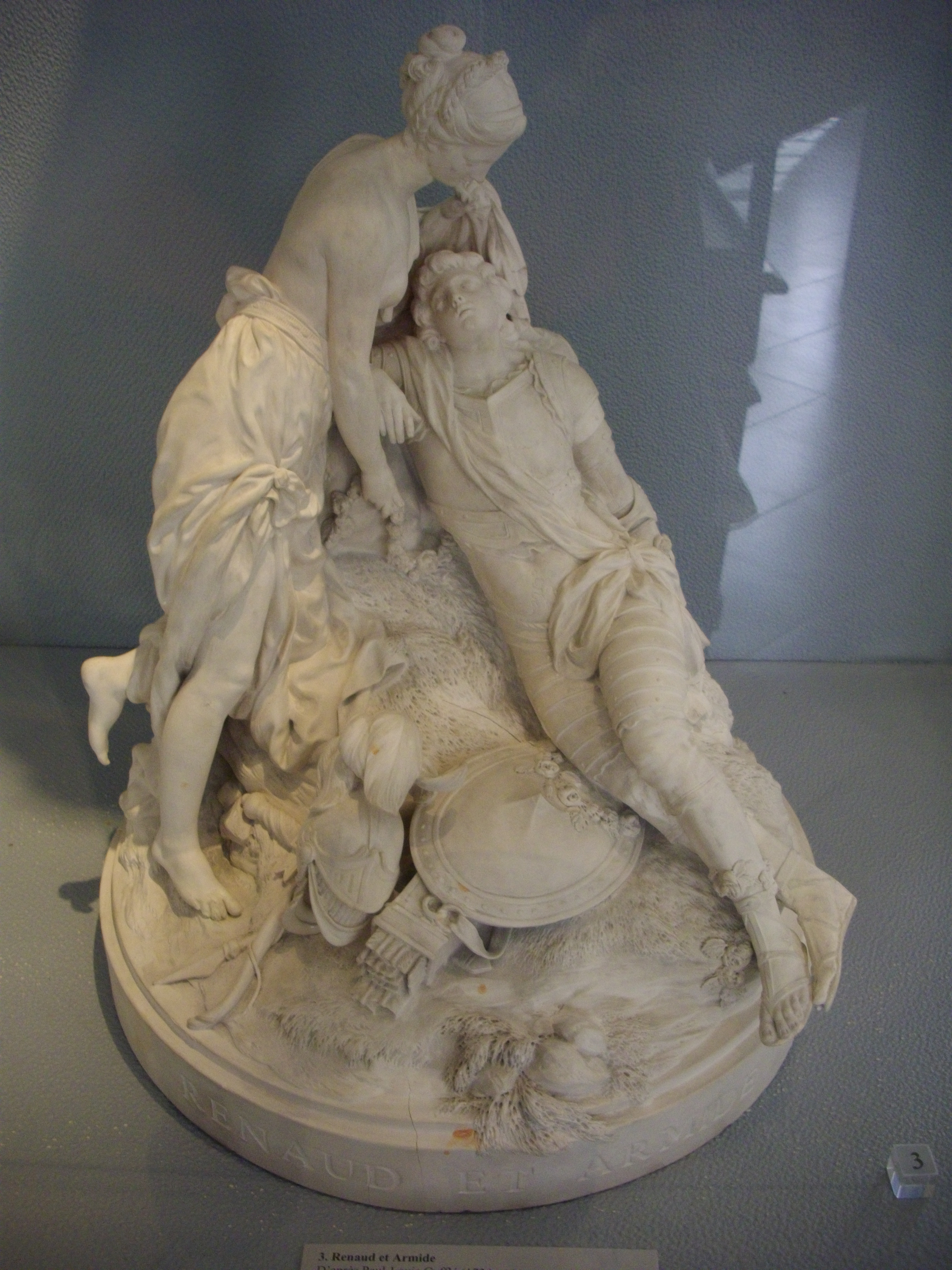 Musée lorrain (Nancy) ; Renaud and Armida, Lunéville ceramics, end of the 18th-century